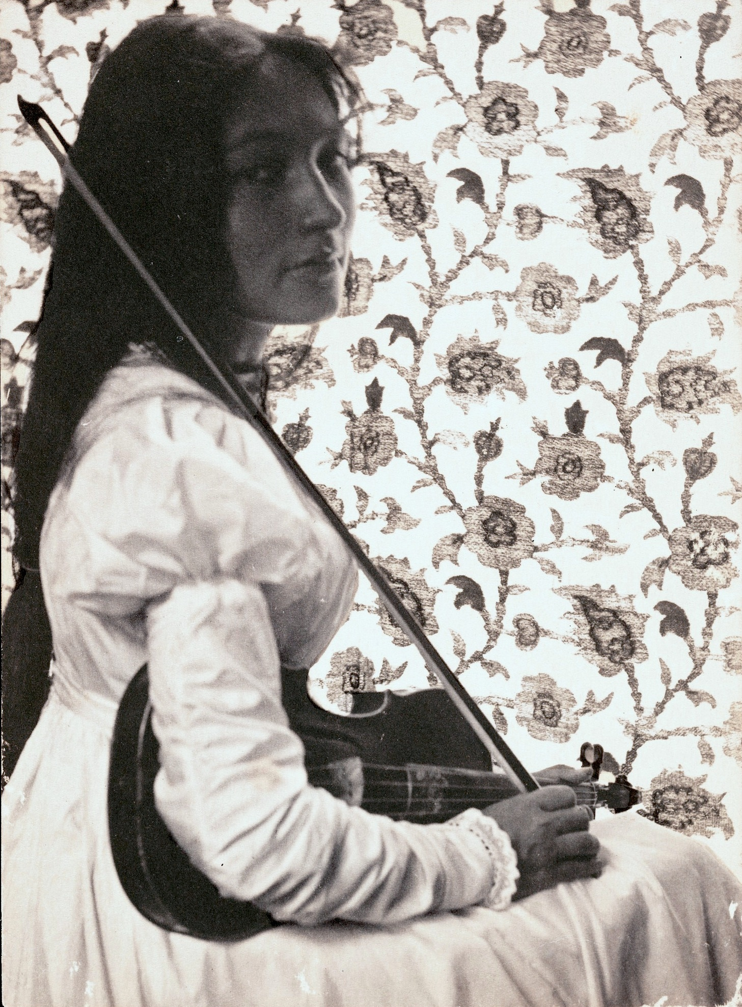 SI Neg. 2004-57784. Date: na...Platinotype: Sioux girl, "Zitkala-Sa" wearing a white long-sleeved dress and holding violin and bow, floral wallpaper in background ..Credit: Gertrude Kasebier (Smithsonian Institution)